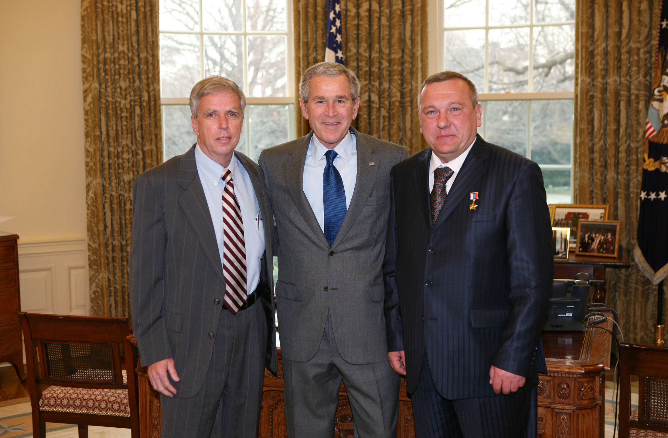 (Left) MSU President Robert H. "Doc" Foglesong, President Bush, and Gen. Vladimir Shamanov